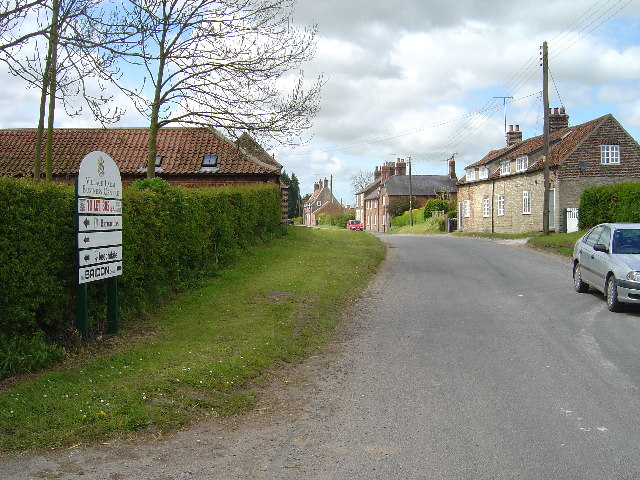 Holme on the Wolds, East Riding of Yorkshire, England.A small hamlet with no shop, school or pub. The yard to the left of the picture is now a business park.